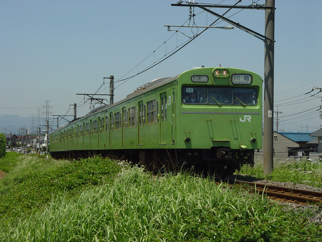 JR East 4-car 103-3500 series EMU set 56 between Nishi-Kawagoe and Matoba stations on a Kawagoe Line service, 5 June 2004